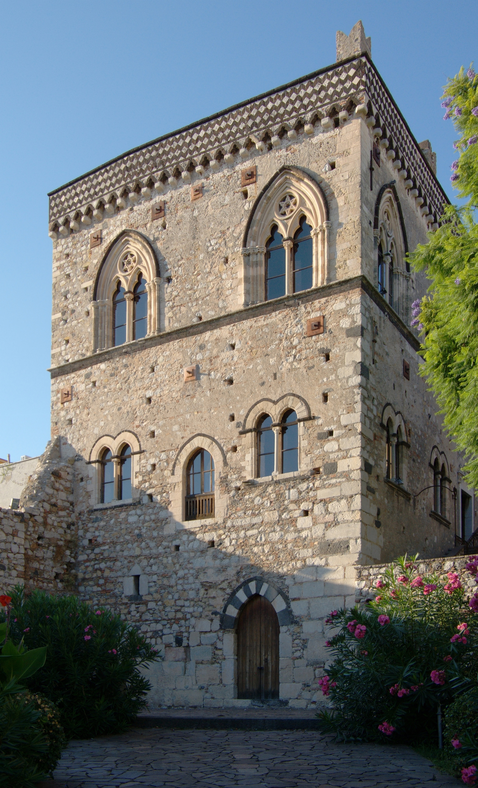 Italy, Sicily, Taormina, Palazzo Duchi di Santo Stefano